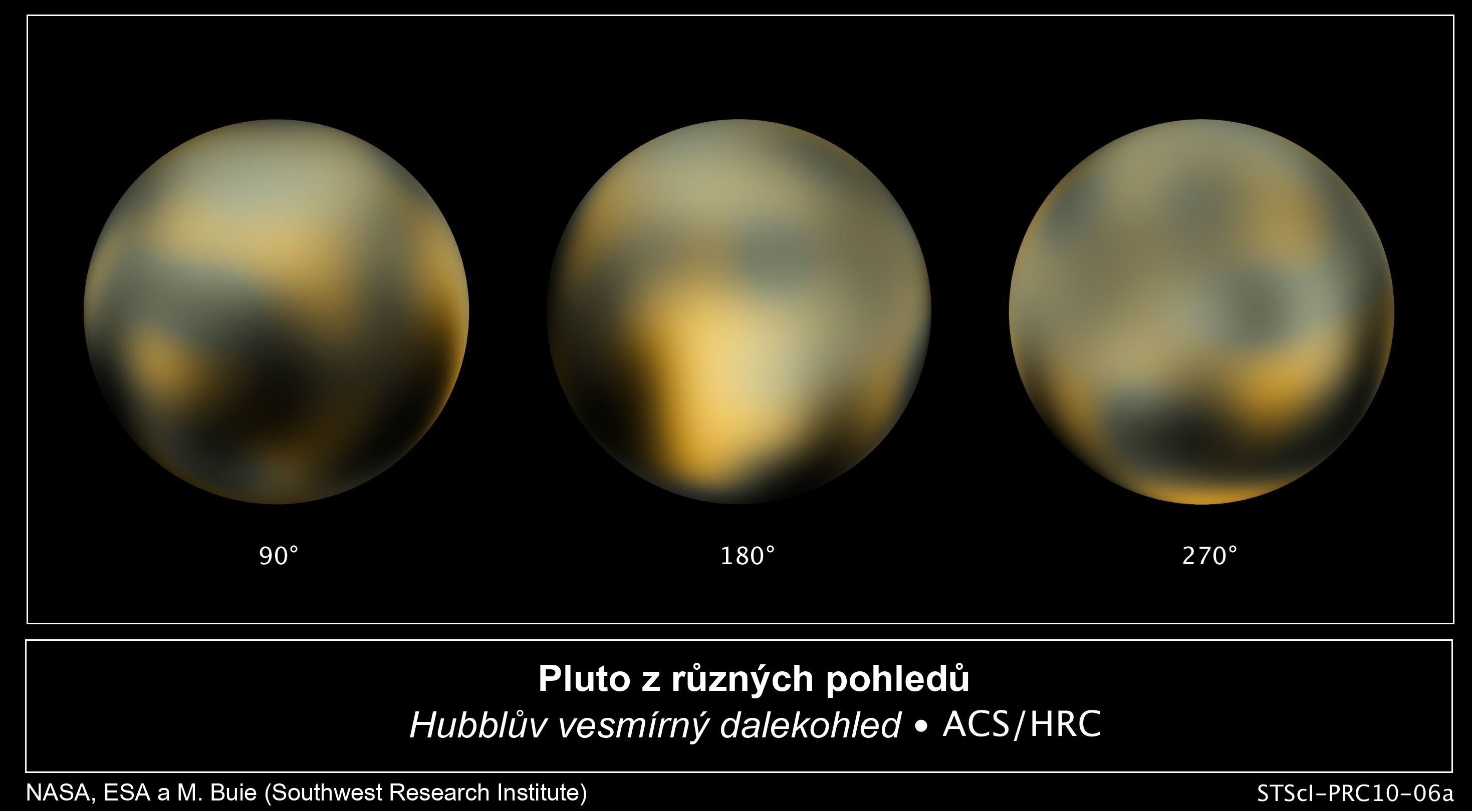 Color image/map of Pluto generated with the Hubble Space Telescope and advanced computers.